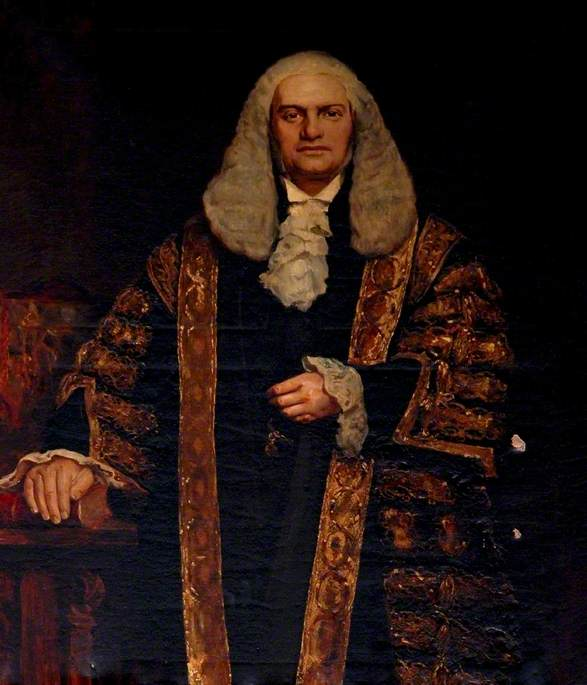 Portrait of Farrer Herschell, 1st Baron Herschell, Lord Chancellor